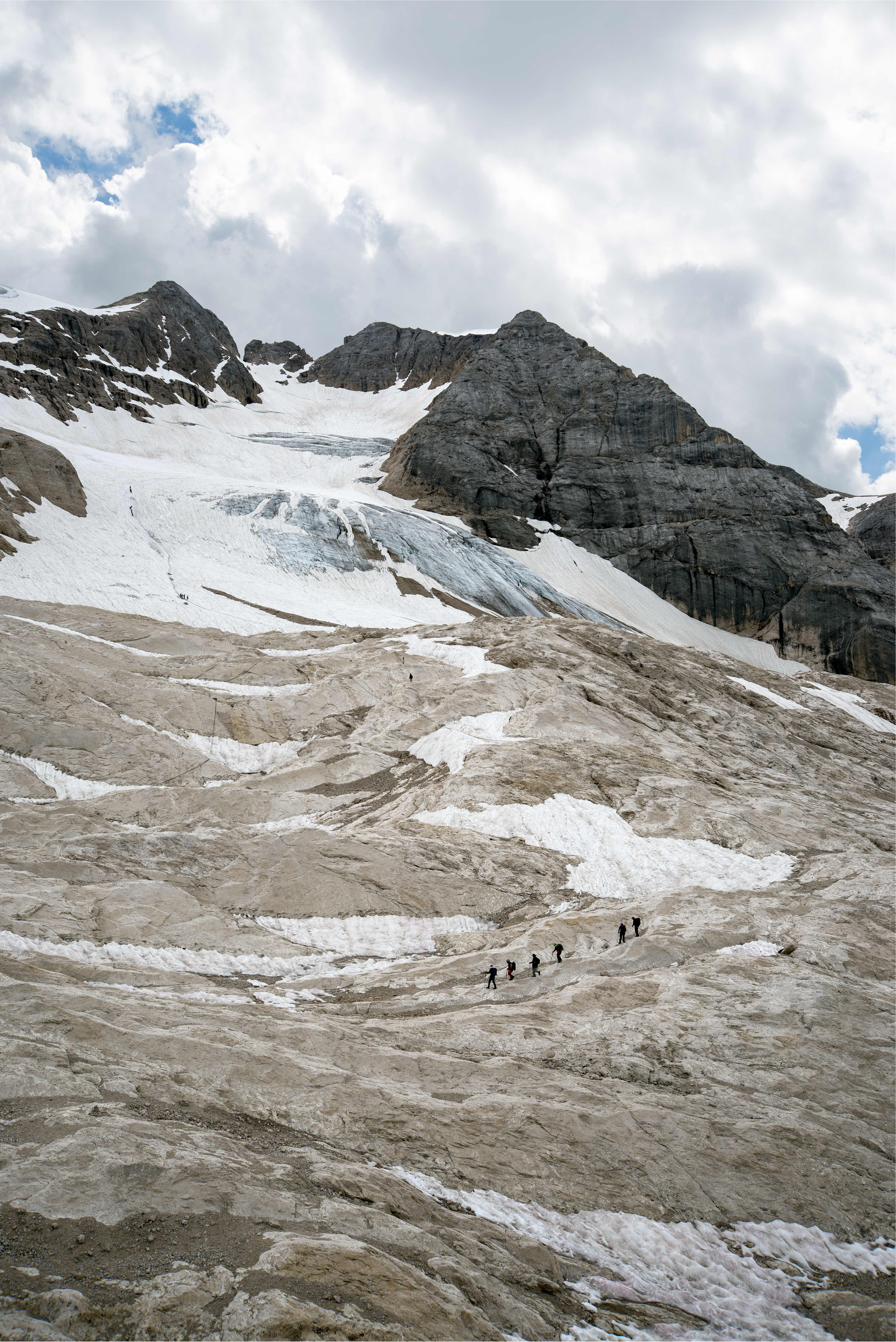 Marmolada - Pian dei Fiacconi, Canazei, Trento, Italia